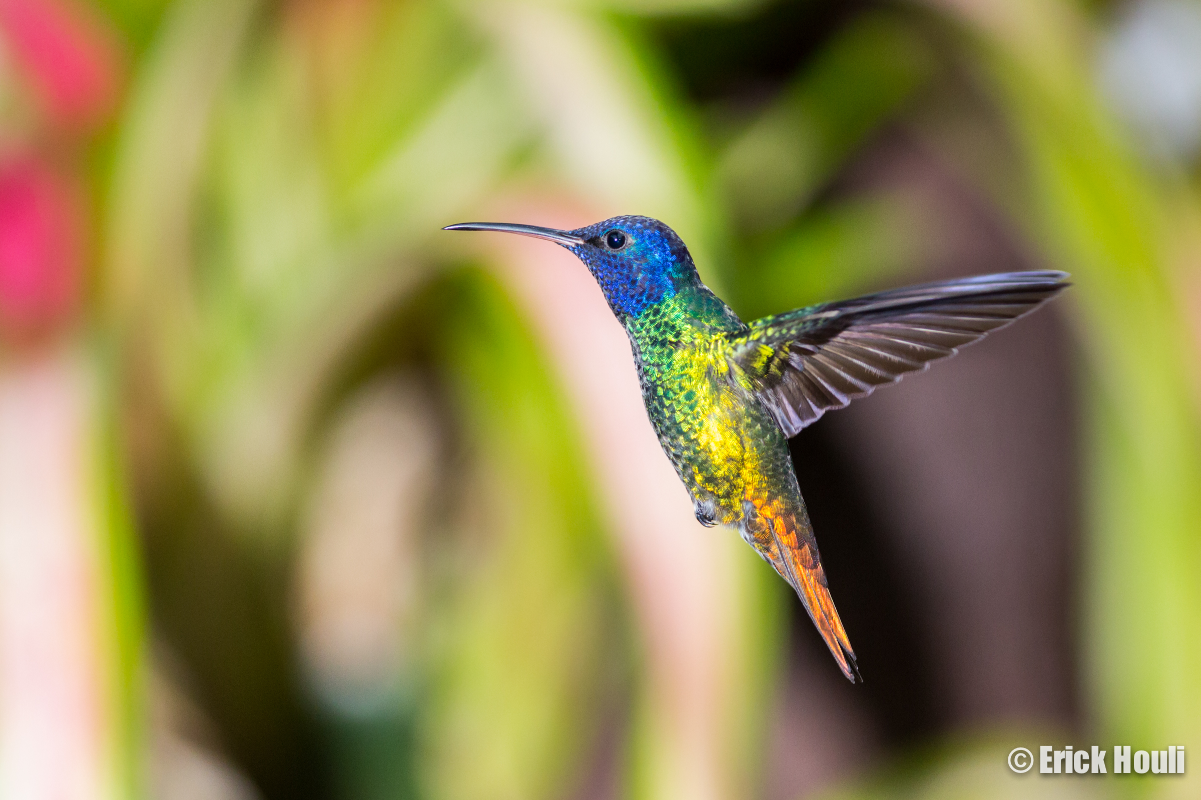 Male Golden-tailed Sapphire Chrysuronia oenone hovering